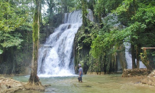 The hidden paradise of Agusan del Sur Pinandagatan Falls